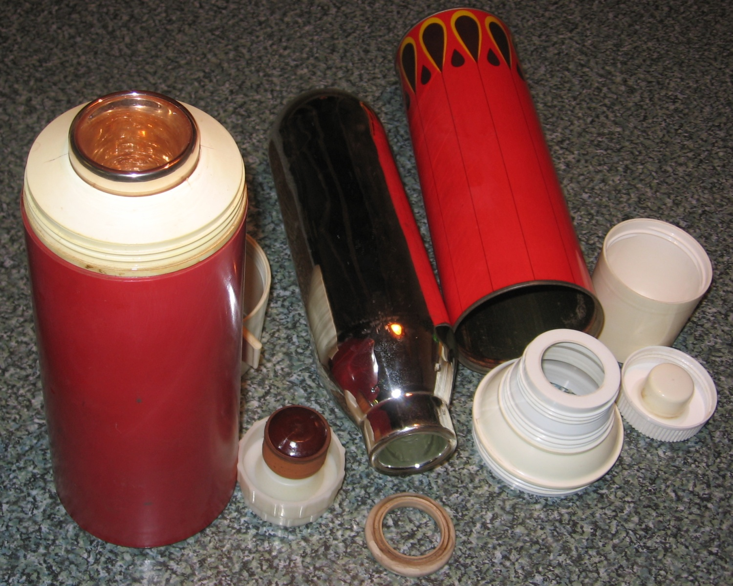 Thermos: left - ready for use right - disassembled to show vacuum flask (mirror-like glass container)